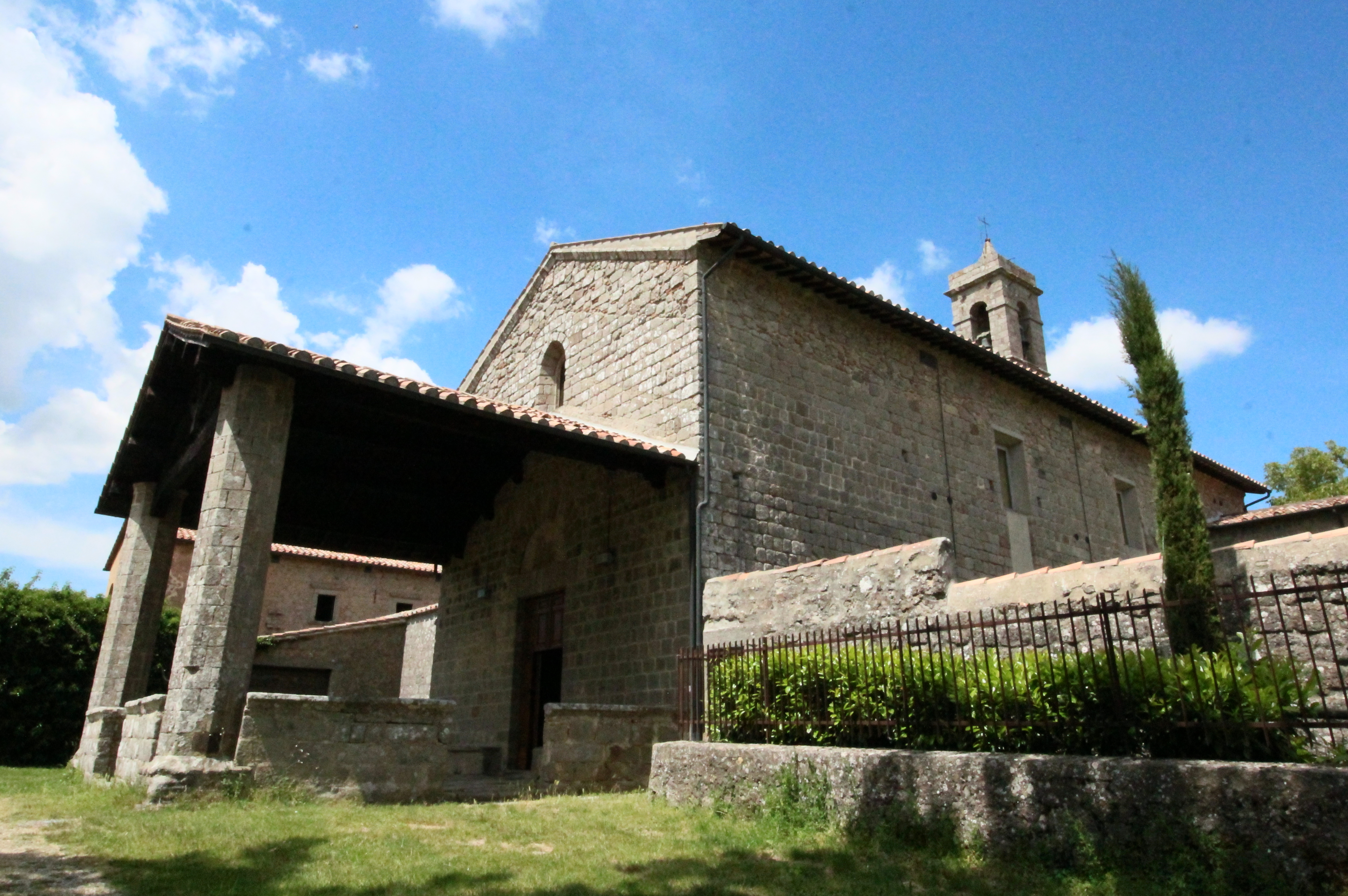 Church San Francesco, Piancastagnaio, Province of Siena, Tuscany, Italy.